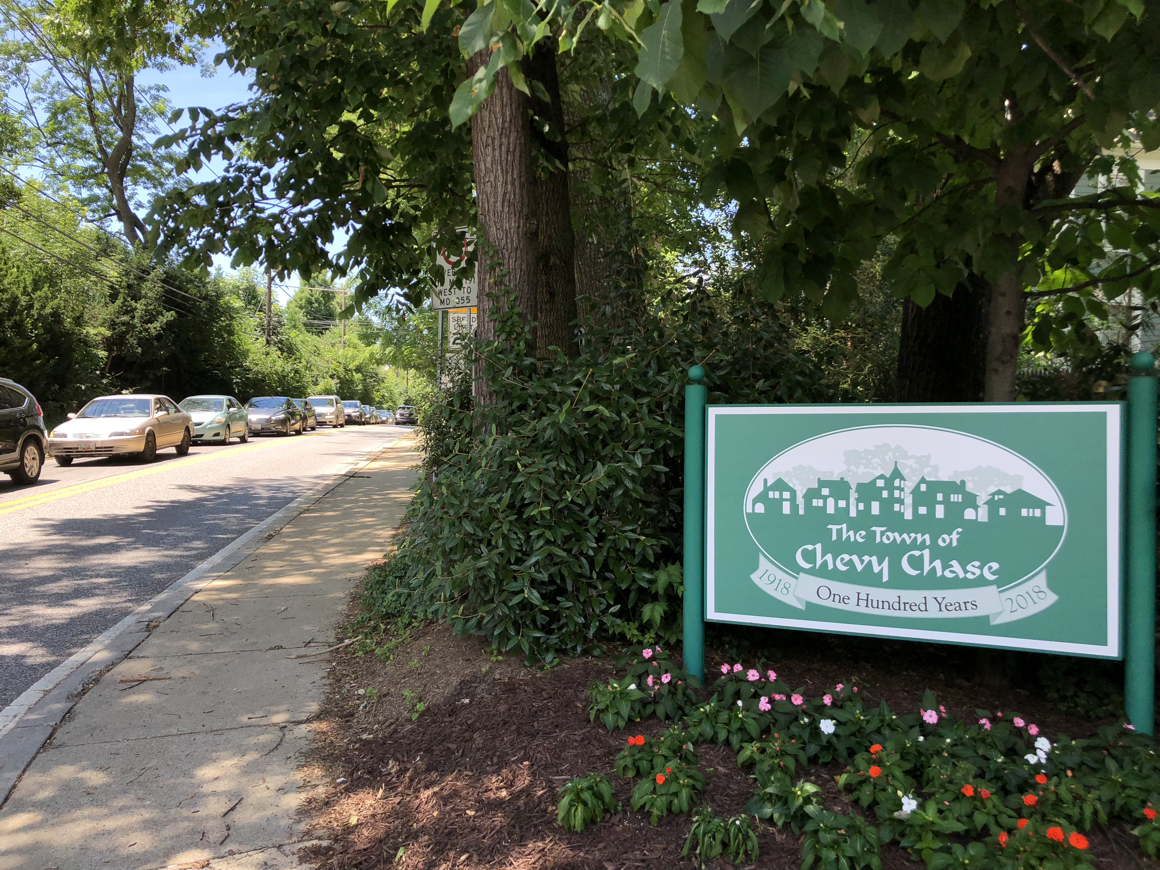 View west along Maryland State Route 191 (Bradley Lane) at Maryland State Route 185 (Connecticut Avenue) within the Town of Chevy Chase, Montgomery County, Maryland